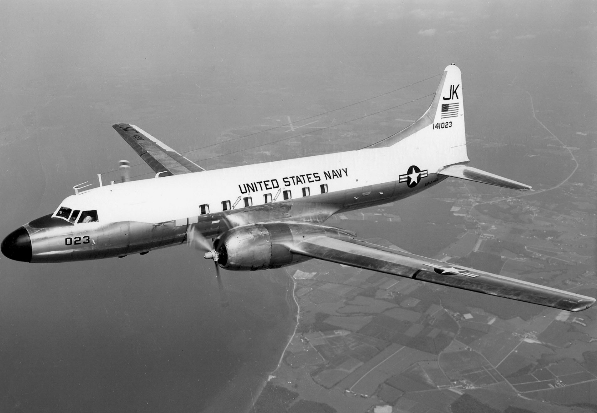 A U.S. Navy Convair C-131F Samaritan (BuNo 141023) from Transport Squadron VR-1 Star Lifters in flight. VR-1 was based at Naval Air Facility Washington, D.C. (USA). The C-131F 141023 was retired to the to MASDC as MB0005 on 2 June 1986.